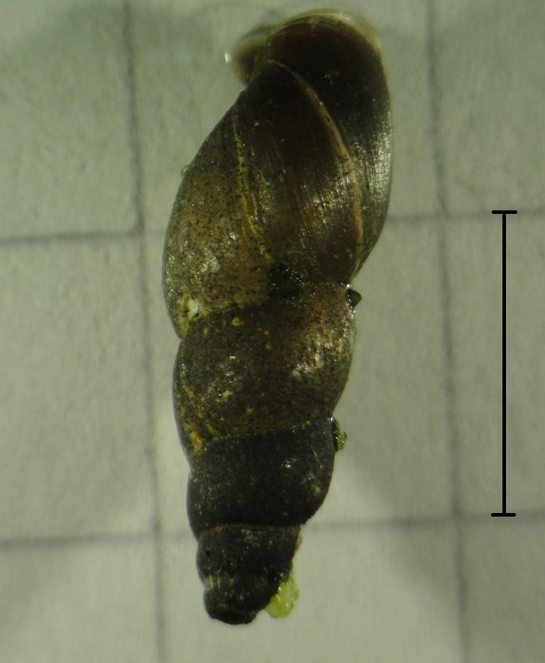 Omphiscola glabra. Scale bar is 5 mm. This snail was collected in Western Sweden near Göteborg.